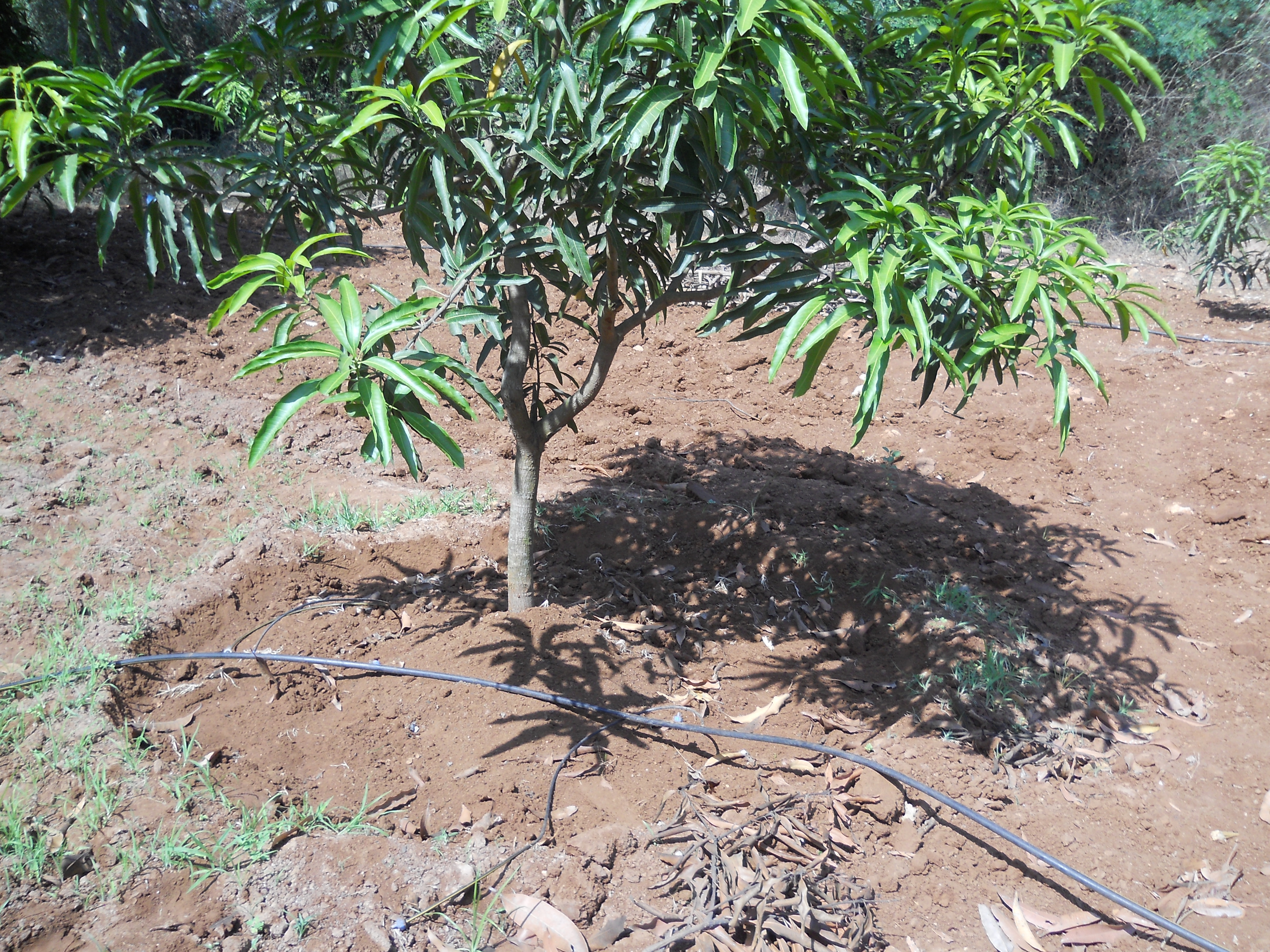 Garden bed